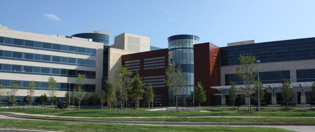 Photo of Norman Regional HealthPlex hospital in Norman, Oklahoma.